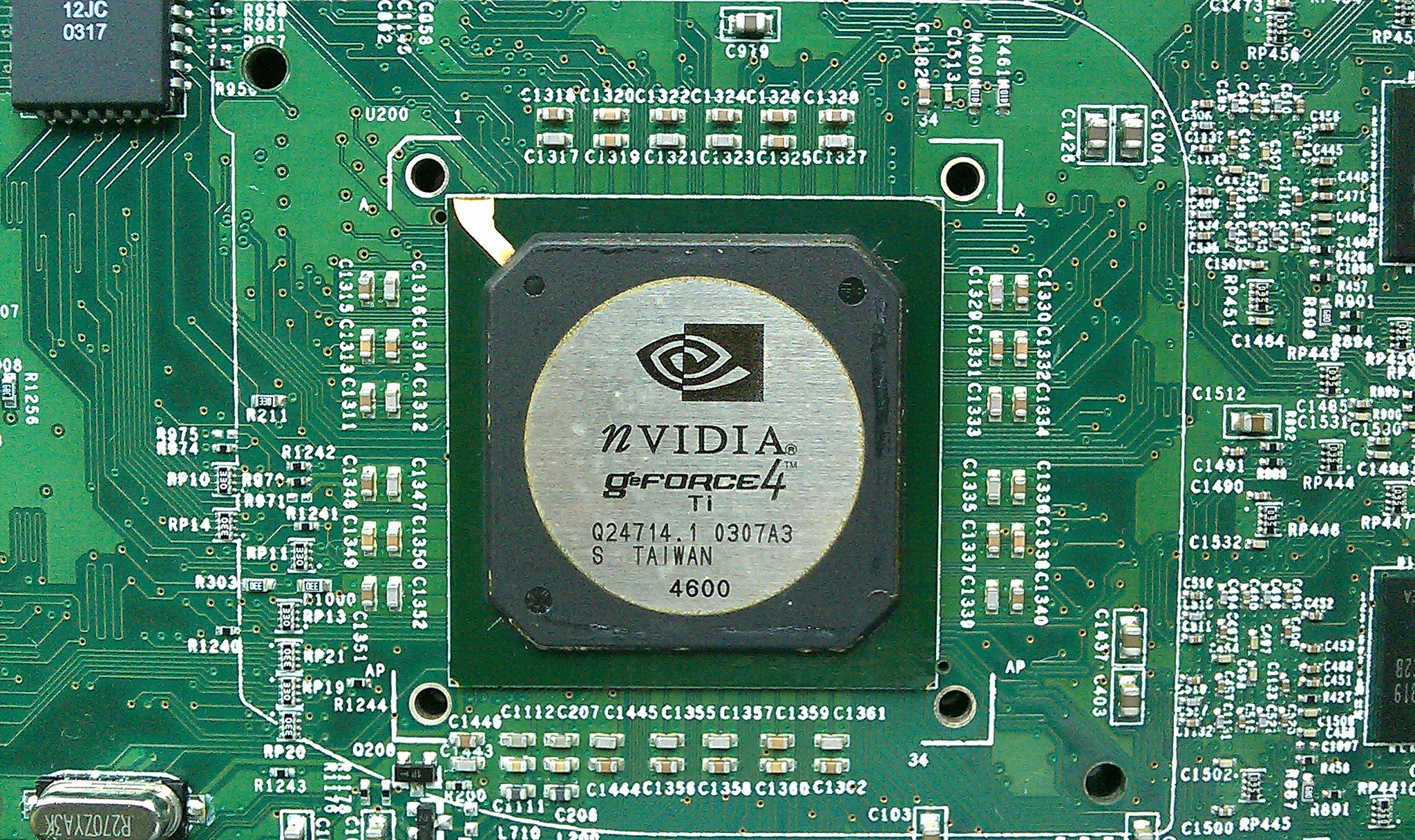 GeForce4 Ti 4600 NV25 GPU